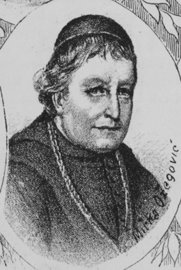 Portrait of Mirko Ožegović (1775-1869), Croatian bishop and politician.